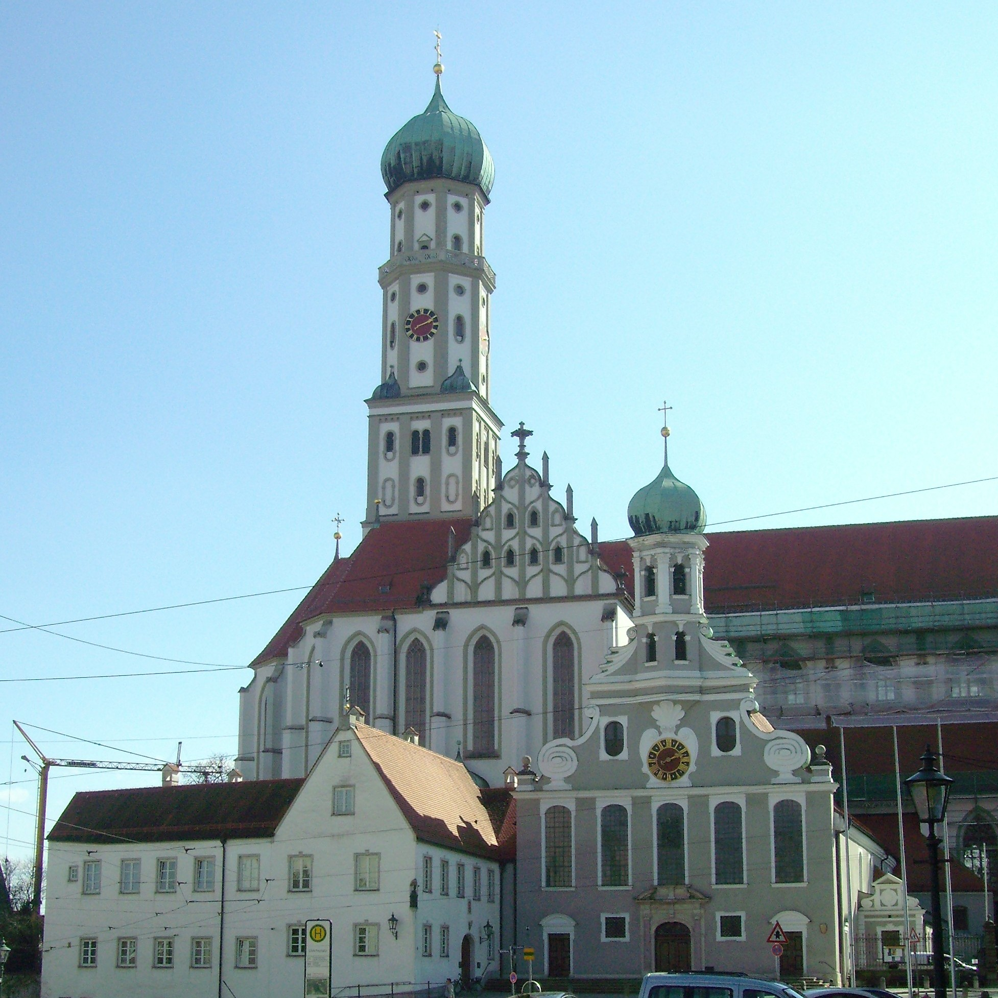 St. Ulrich's and St. Afra's Abbey, Augsburg, Augsburg, as seen from Maximilianstraße, looking south. In front of it the protestant church of St. Ulrich.